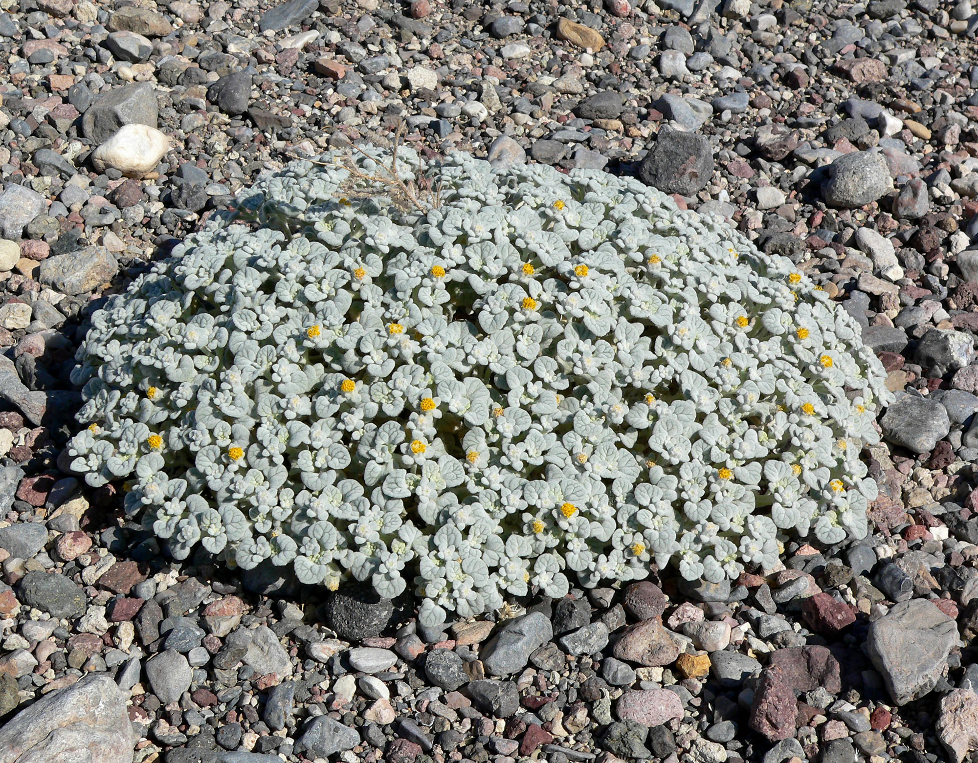 Psathyrotes ramosissima in Furnace Creek Wash, Death Valley, California